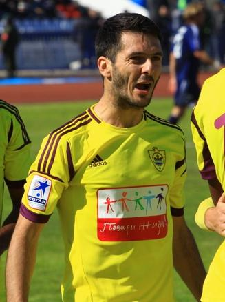 Emir Spahić with FC Anzhi Makhachkala in 2013.